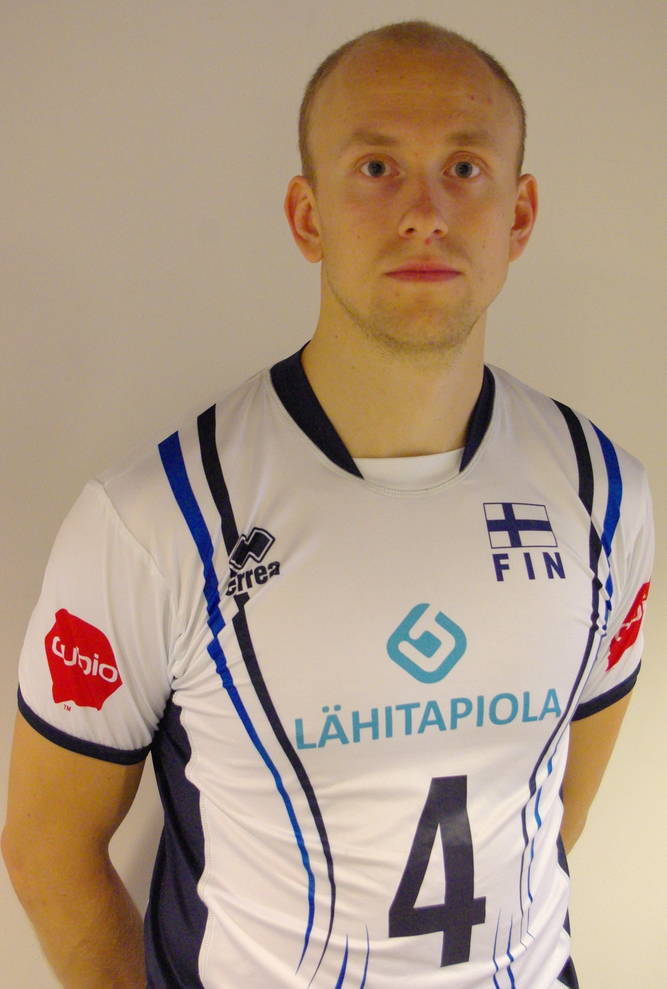 Roininen Tommi